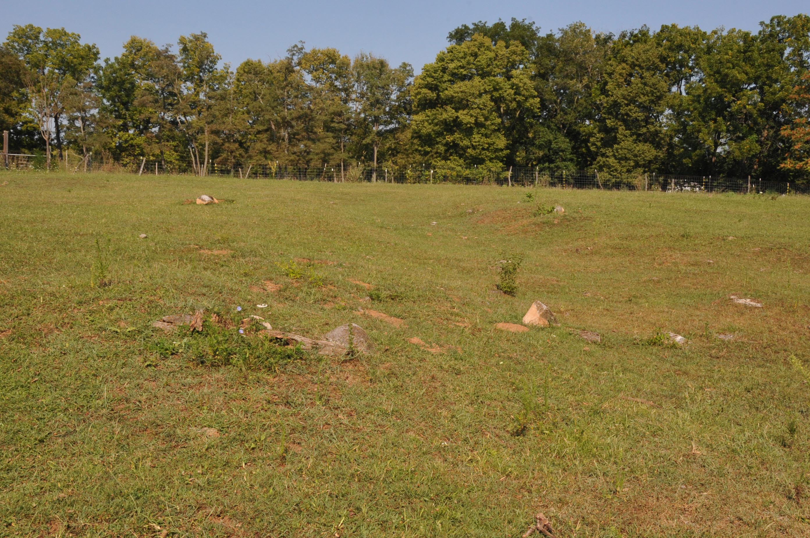 THE JOHN DRINKER HOUSE IS NO LONGER STANDING. THE ROOF DETERIORATED AND CAUSED THE HOUSE TO COLLAPSE. THE SITE IS SHOWN ON THIS PICTURE AS A DEPRESSION IN THE GROUND. JOHN DRINKER BUILT THE HOUSE IN 1815. HE WAS A QUAKER PORTRAIT ARTIST FROM PHILADELPHIA. THE HOUSE WAS REPUTED TO BE USED ON THE UNDERGROUND RAILROAD